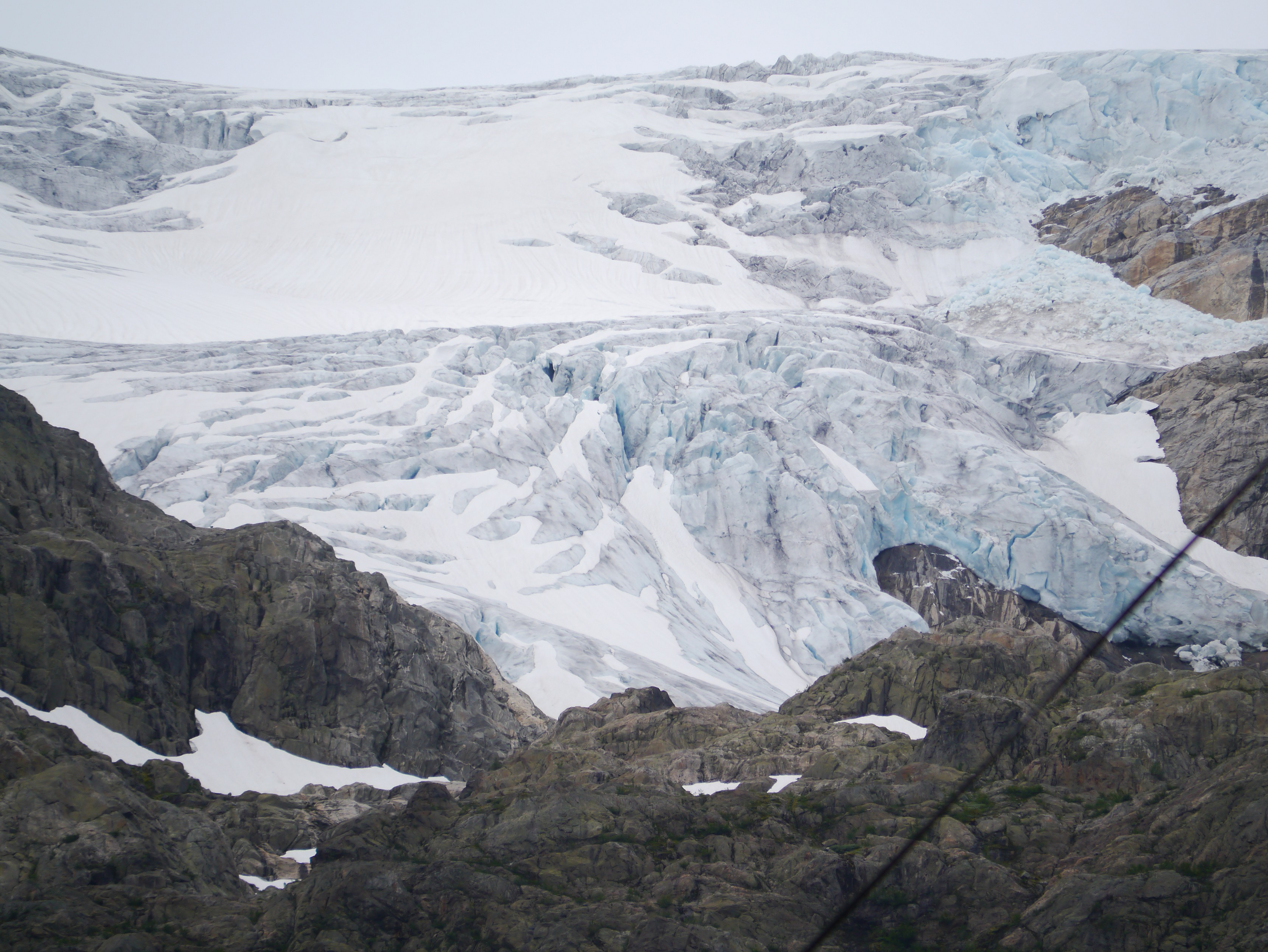 Folgafonna Glacier, Hardanger County, Western Norway